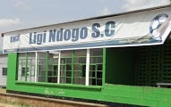 The repainted Ligi Ndogo clubhouse,2011